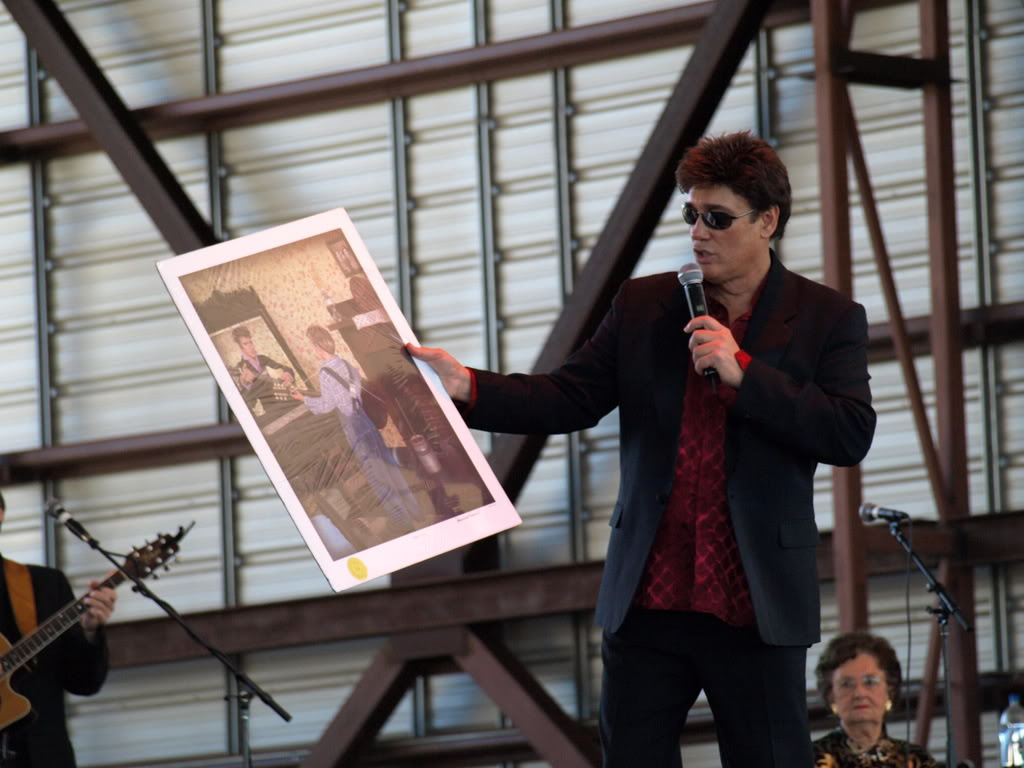 Ronnie McDowell presenting his "Reflection of a King" painting during a live performance.